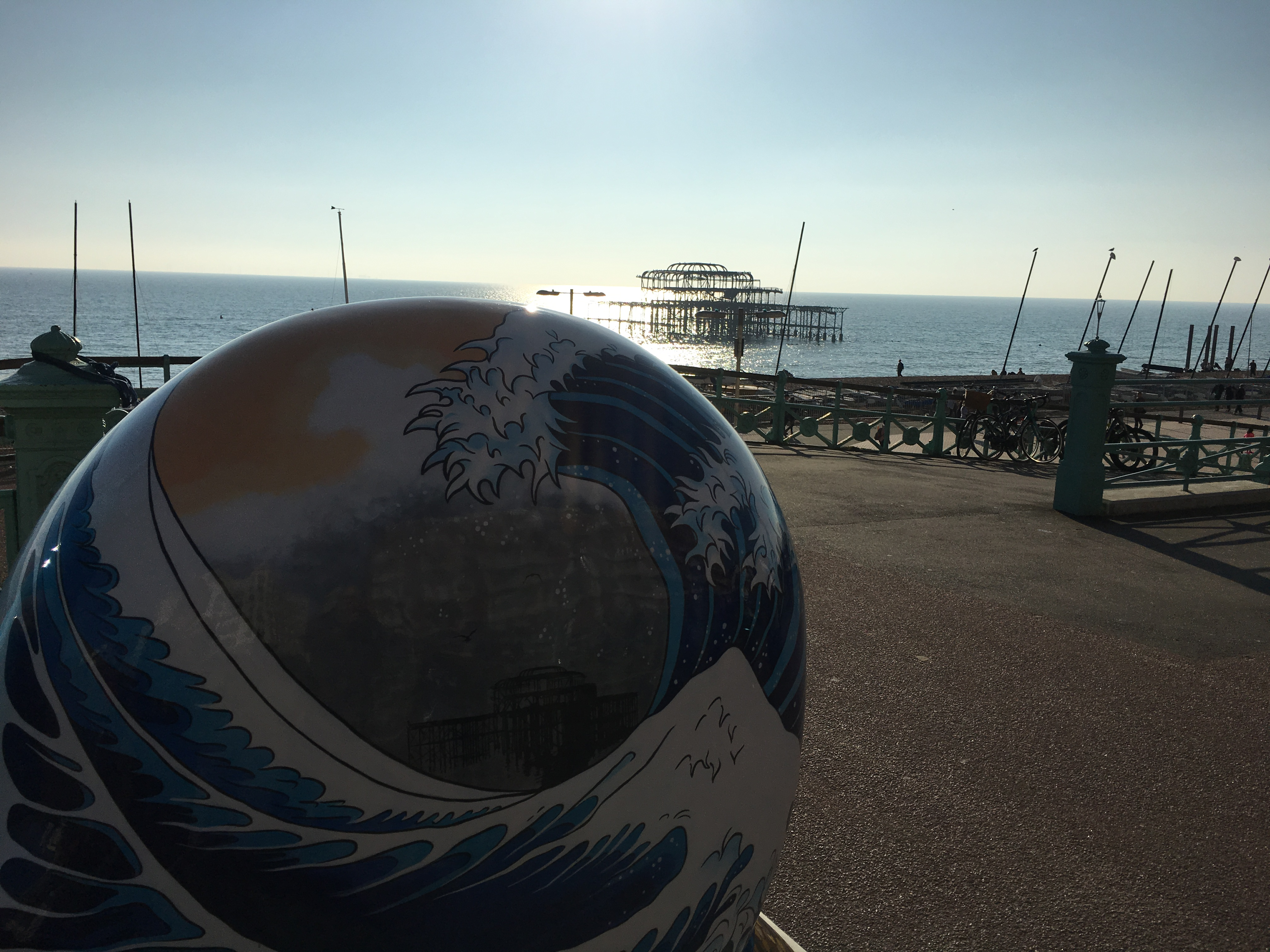 Part of SnailSpace Brighton 2018, this fibreglass snail, painted by Fiona Blair, mimics the paintings of Hokusai.